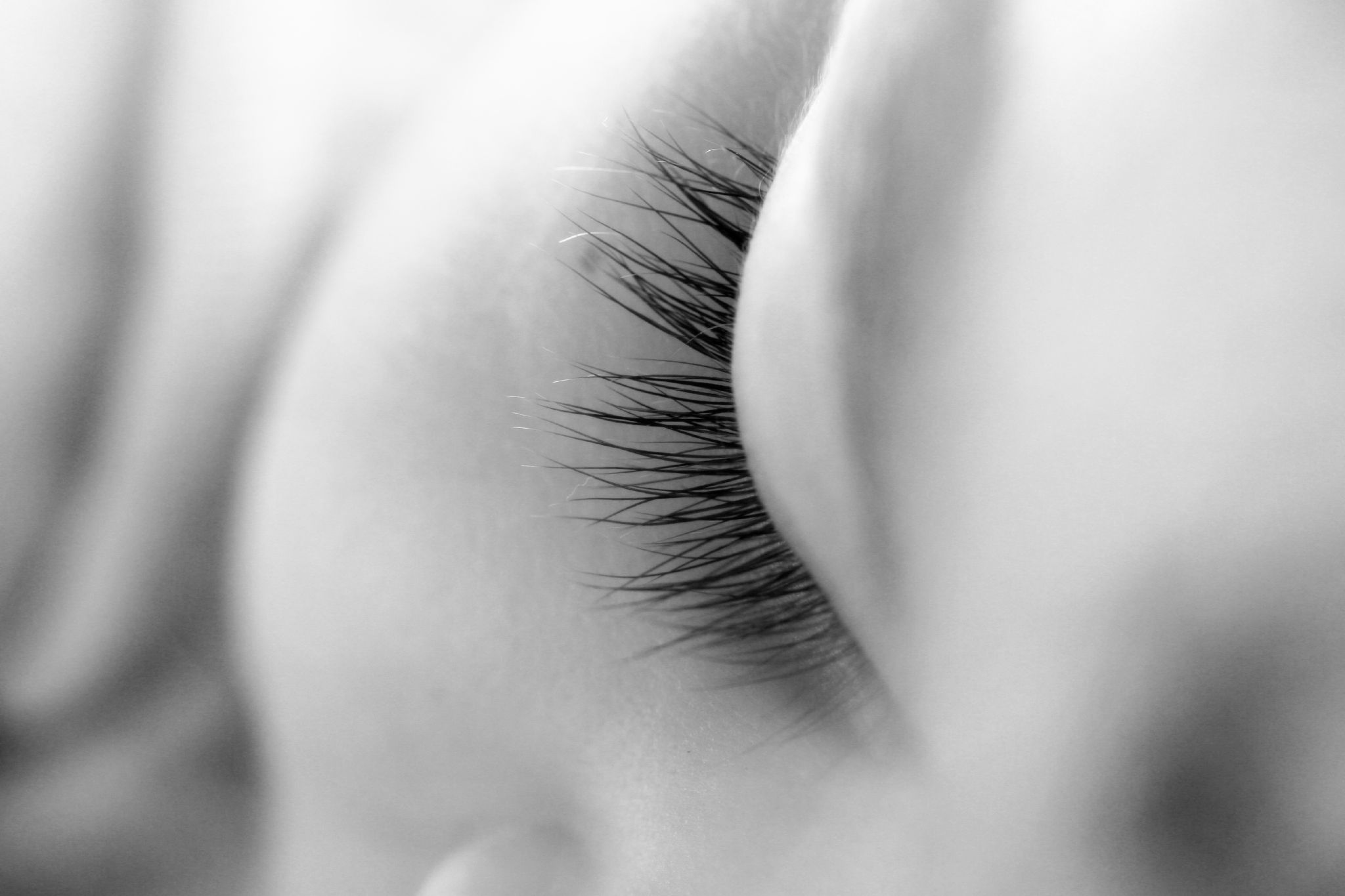 Amazing, when she's asleep, she's goodness personified, when she's awake, let's just say that I have more grey hairs on my head now, than I did 3 years ago!